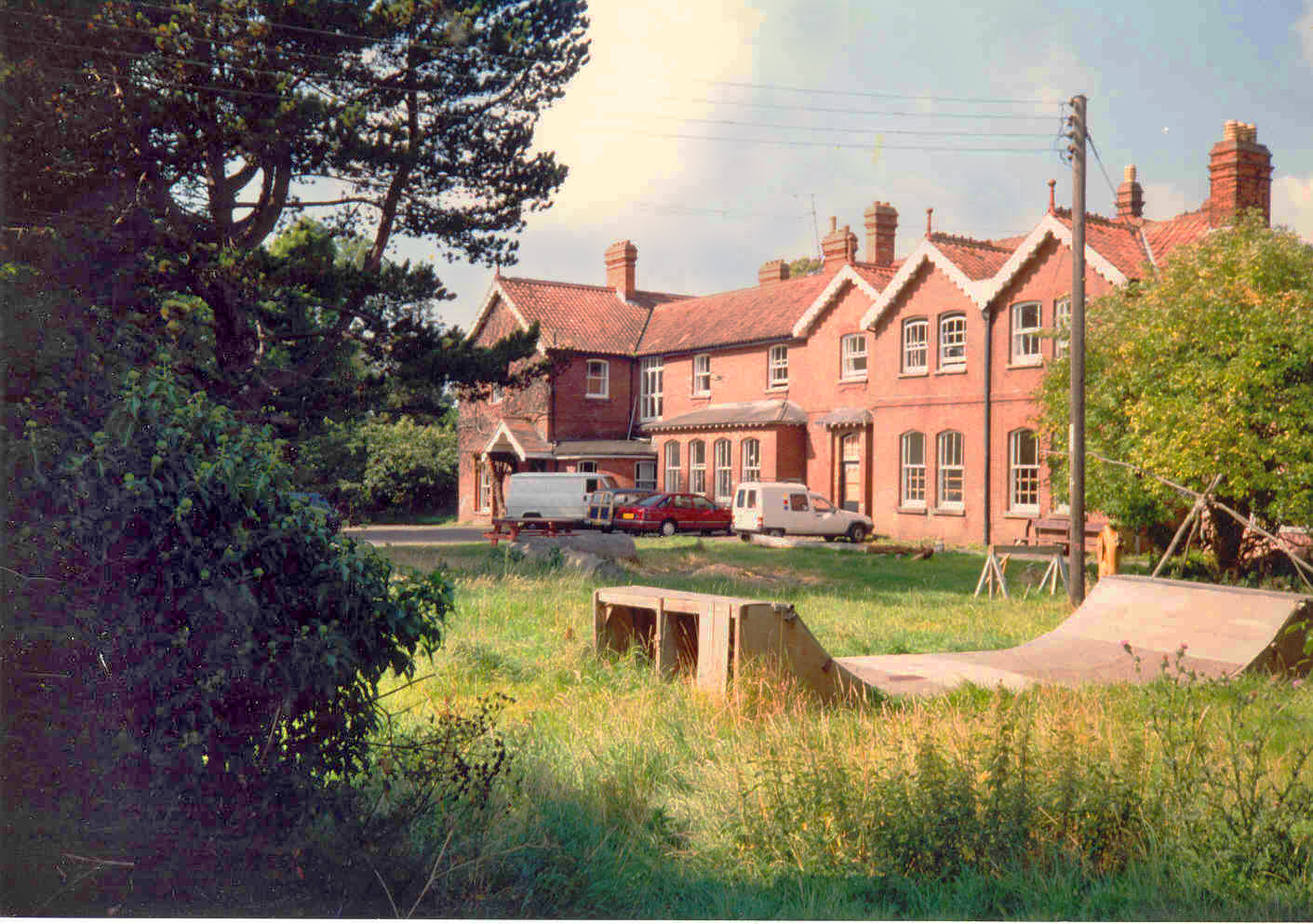 Mainbuilding of the Summerhill School in Leiston, Suffolk (1993)